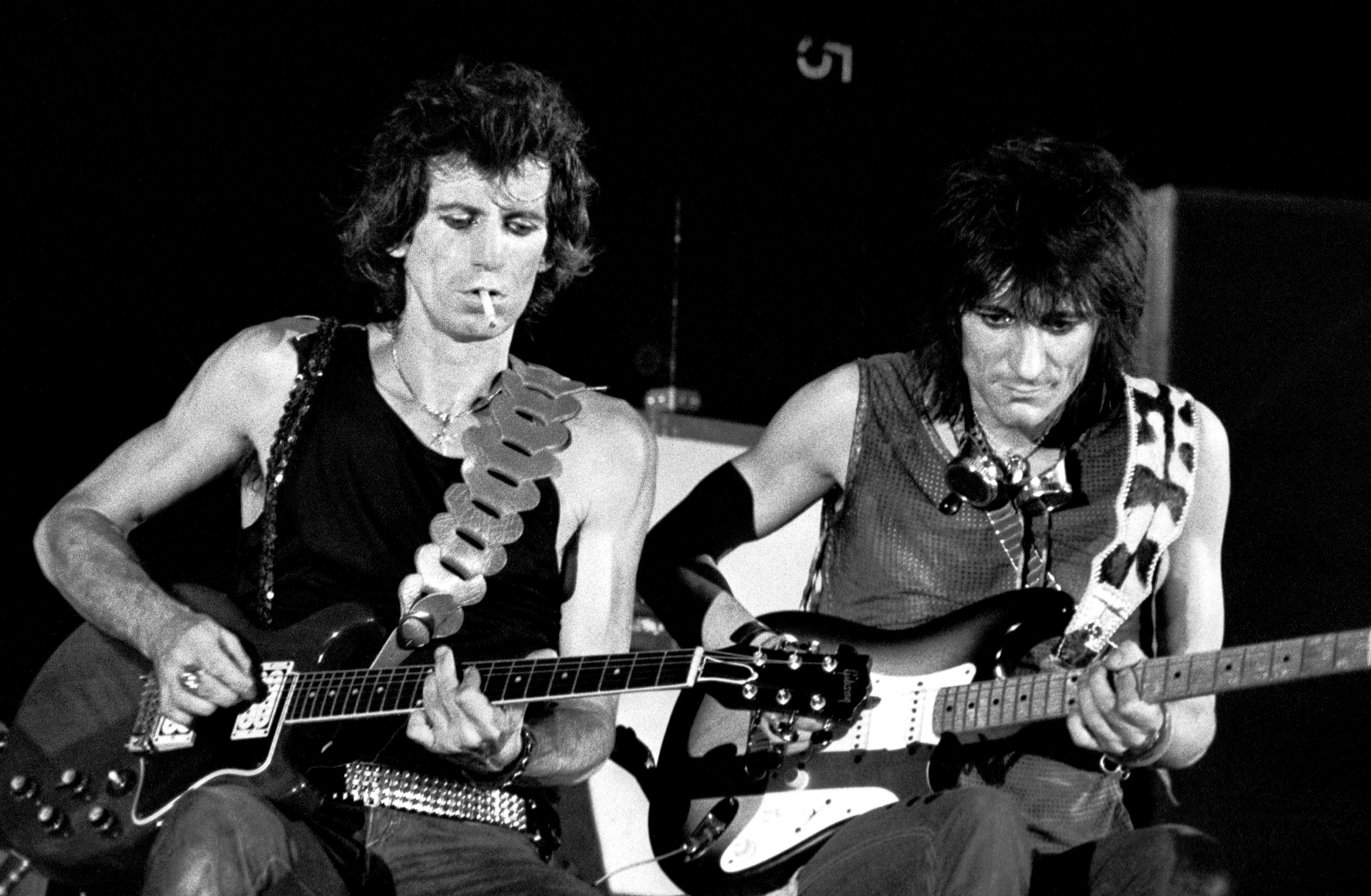 Keith Richards and Ron Wood in 1982 during a Rolling Stones concert in Turin. This is a cropped and retouched (adjustment of colour, sharpened) version of the original image.